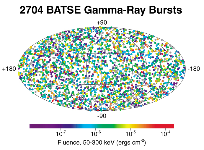 BATSE All-Sky Plot of Gamma-Ray Burst Locations. Original caption: The above figure illustrates the locations of 2512 gamma-ray bursts detected by the BATSE instrument after more than eight years of observation. Statistical tests confirm that the bursts are isotropically distributed on the sky - no significant quadrupole moment or dipole moment is found. At the same time, a deficiency has been detected in the number of faint bursts, interpreted as an indication that the spatial extent of the burst distribution is limited and that BATSE sees the limit or edge of the distribution. The nature of the sources remains unknown. However, their isotropic distribution on the sky along with the deficiency of faint bursts can be naturally explained if the bursts are located at cosmological distances (far beyond the Milky Way). This interpretation has been confirmed in recent years via distance estimates for optical counterparts to gamma-ray bursts.